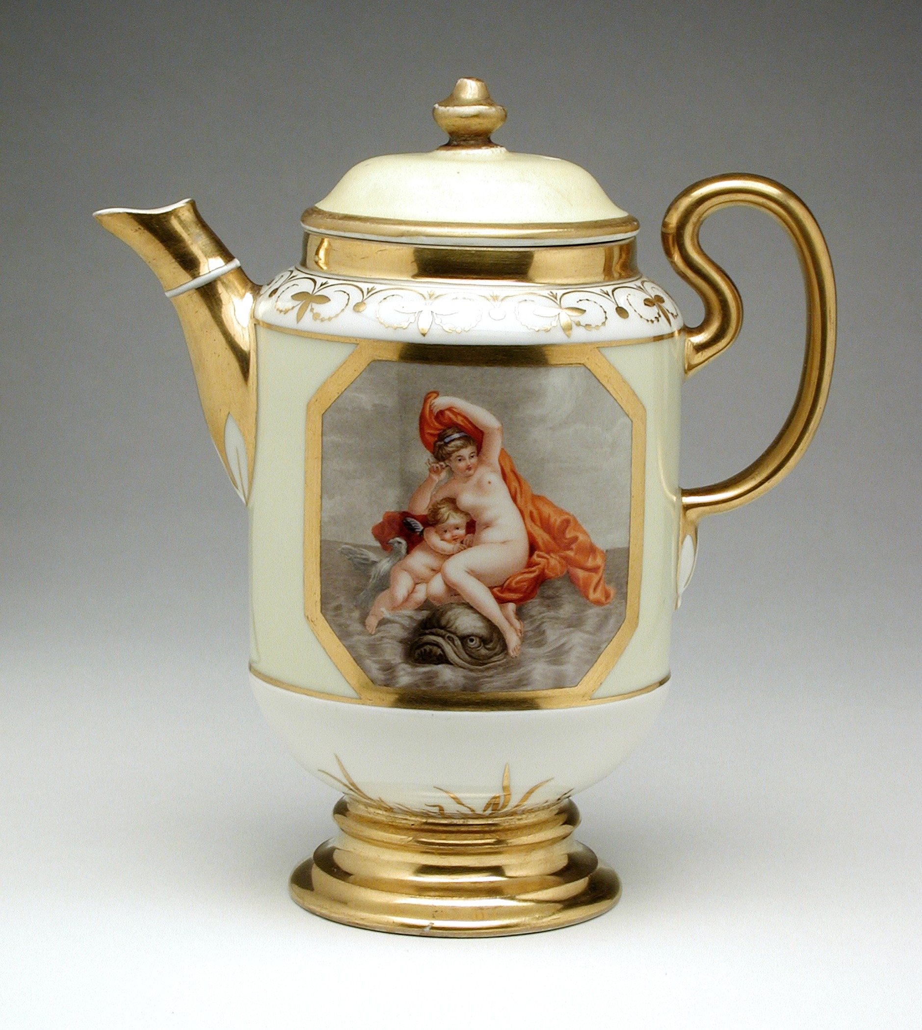 Germany, 1804 Furnishings; Serviceware Porcelain Gift of Mrs. Alfred Stiassni (55.32.2.1-.6) Decorative Arts and Design